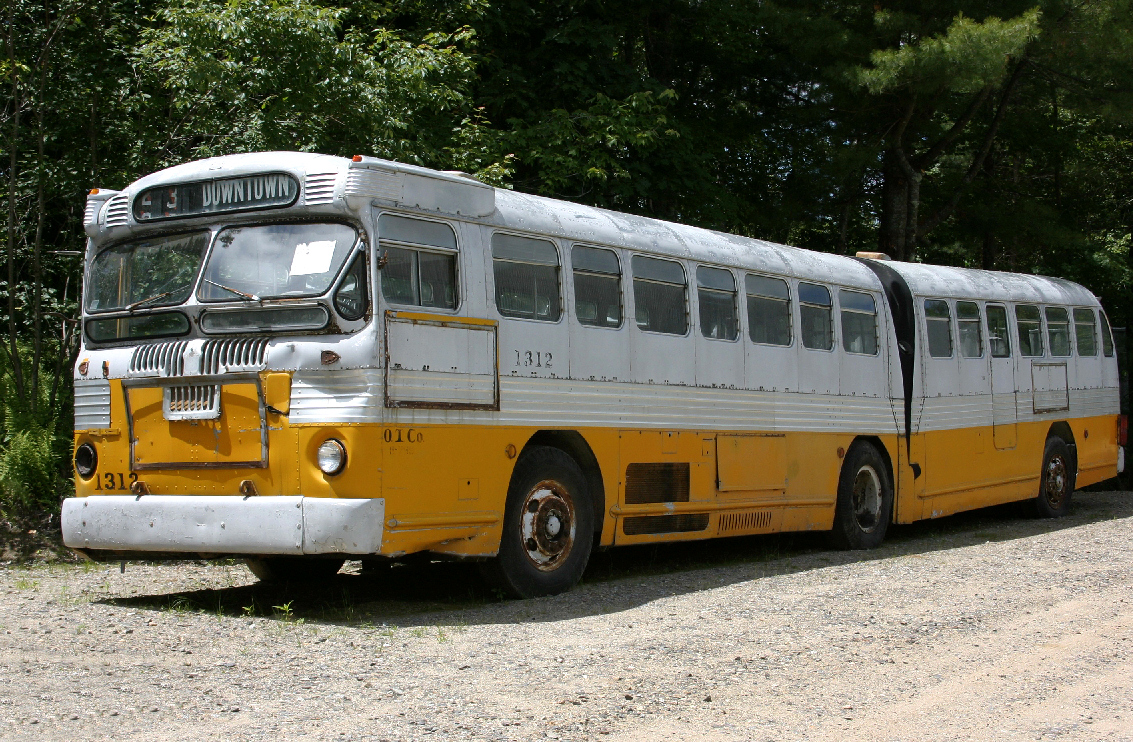 Ex-Omaha Transit Company bus 1312, a 1947 Twin Coach articulated motor bus, preserved at the Seashore Trolley Museum.